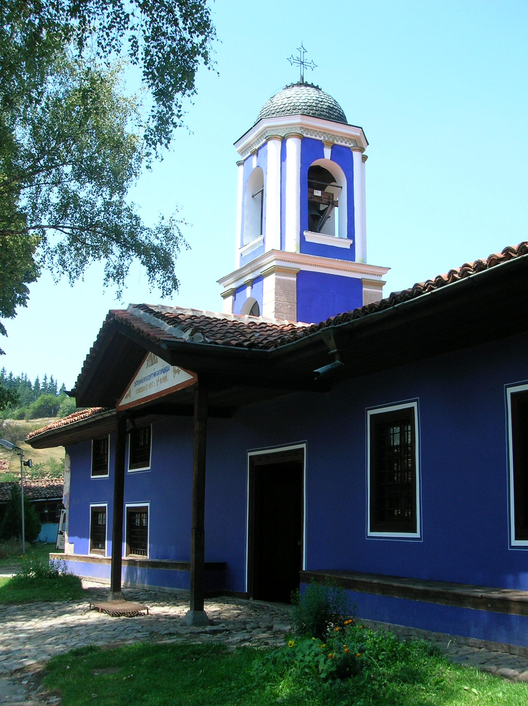 Church Ouspenie Bogoroditchno, in Koprivshtitsa (Bulgaria).